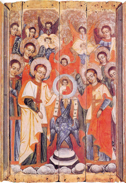 Assembly of the Archangel Michael. Circa 1700.